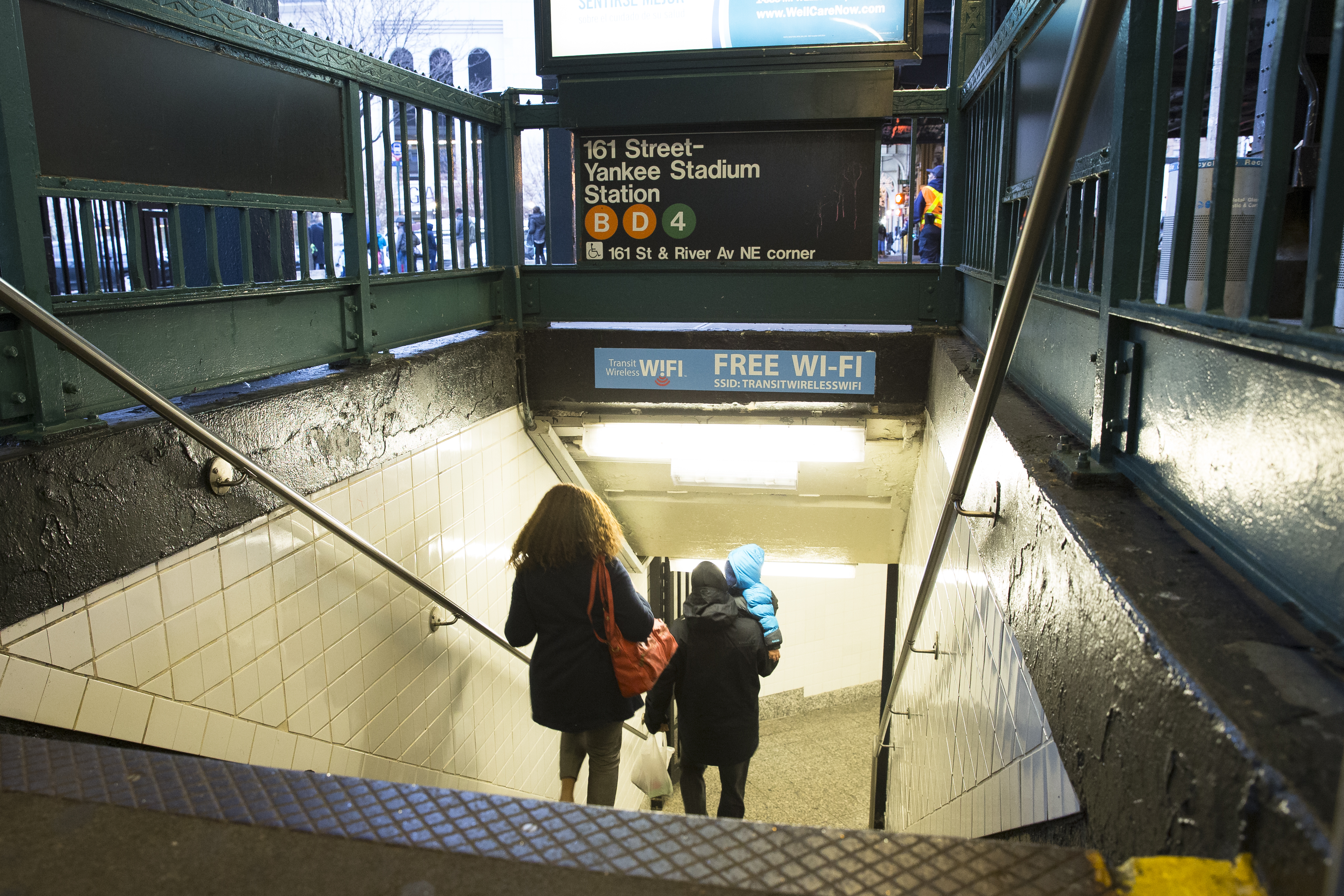 The MTA was joined by Transit Wireless and other carrier partners to introduce Phase 4 expansion of wireless, public safety and Wi-Fi services to 21 underground subway stations in the Bronx and 16 in Manhattan at 161St-Yankee Stadium station in the Bronx on November 12, 2015. Photo: Transit Wireless